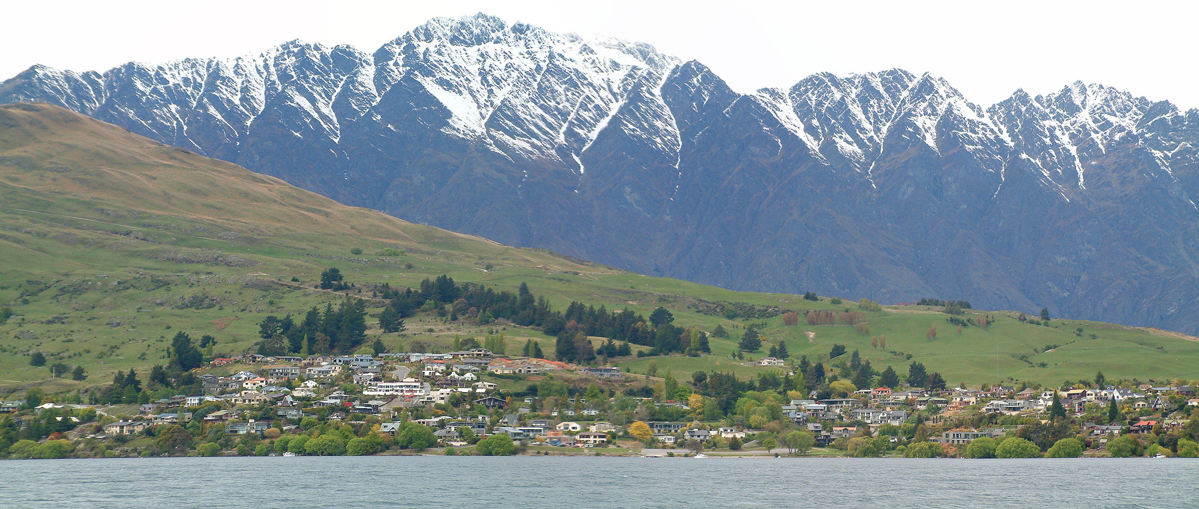 Kelvin Heights a part of the suburb of Kelvin Peninsula in Queenstown (also shown: Peninsula Hill, The Remarkables and The Frankton Arm section of Lake Wakatipu)